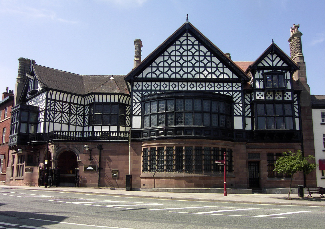 Altrincham Old Market Place